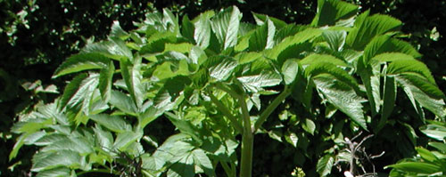 Angelica archangelica in July